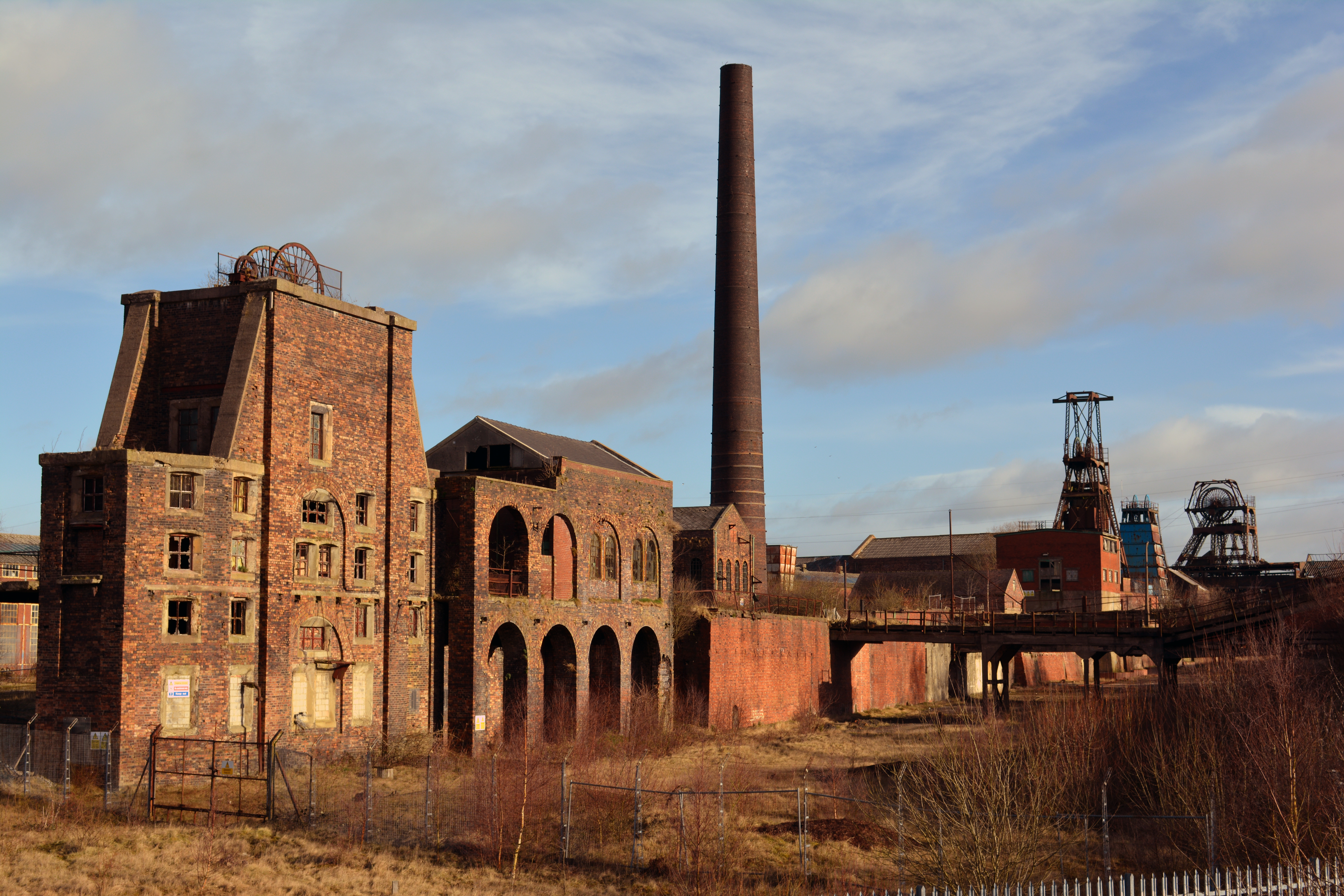 Chatterley Whitfield Colliery showing the Winstanley headgear in the foreground